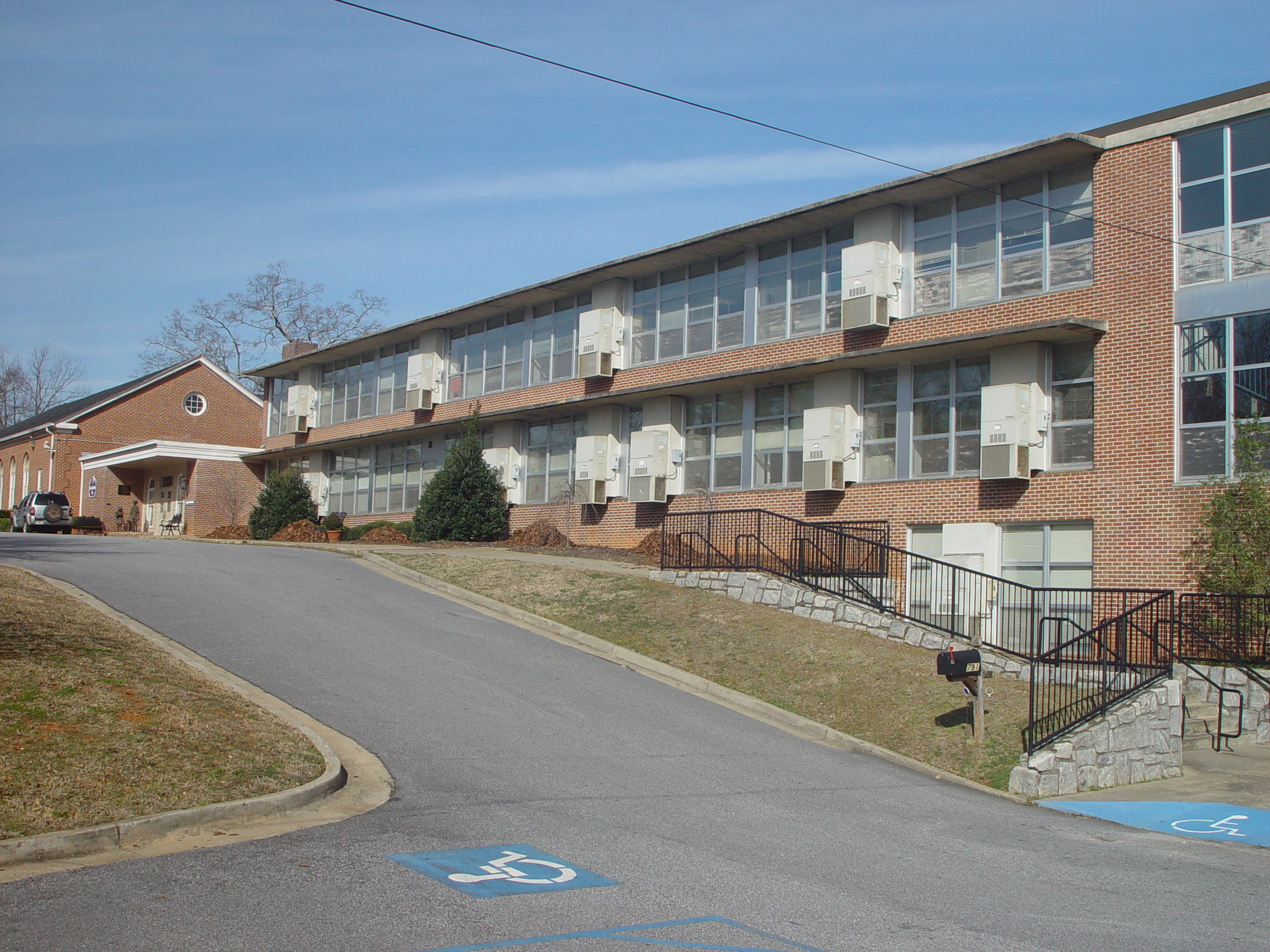 The building housing the original RHS campus is currently used as an alternative High School and Teaching Museum. Entrance to the Teaching Museum North facility.